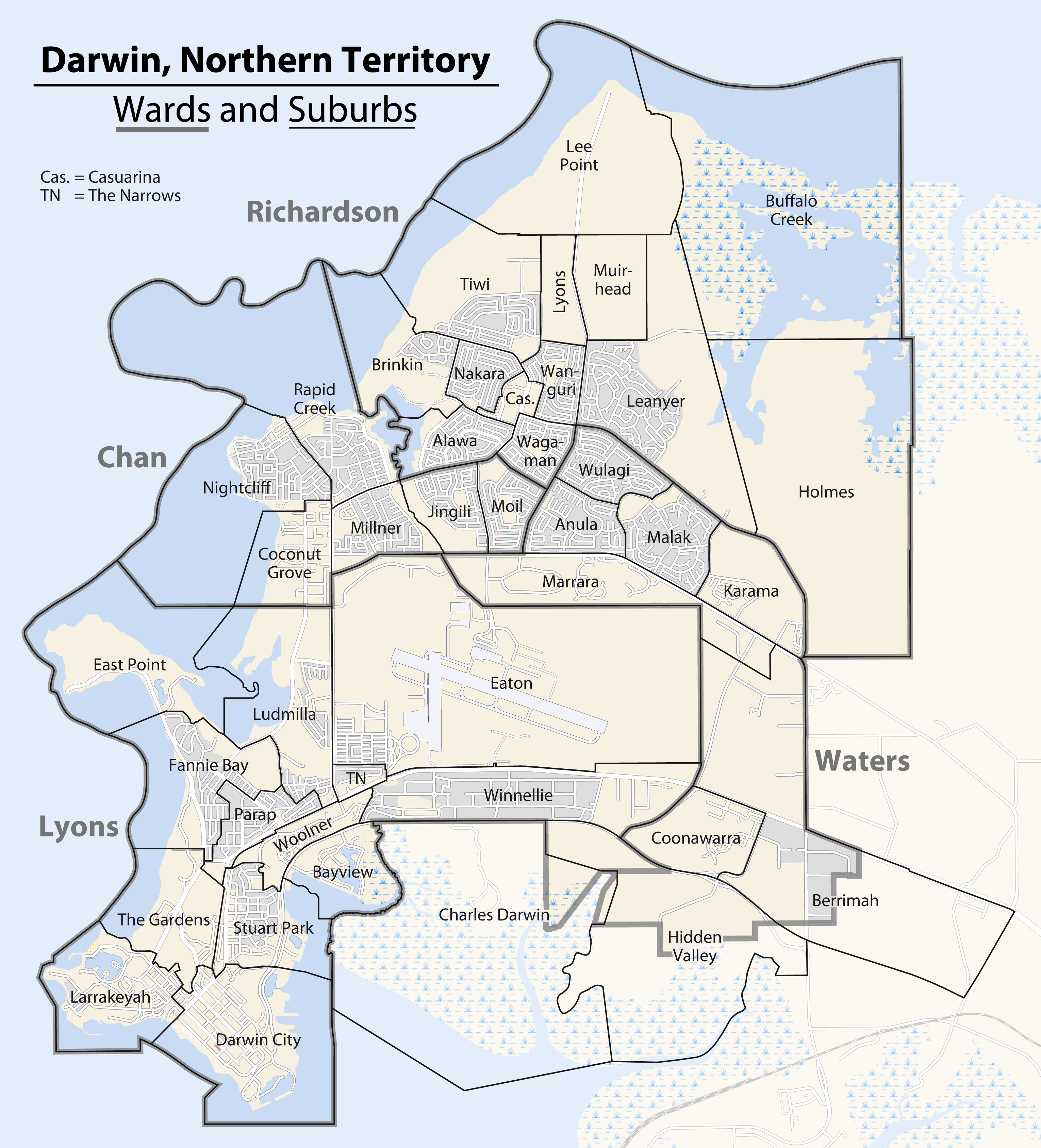 Map of the Wards and Suburbs of Darwin, Northern Territory